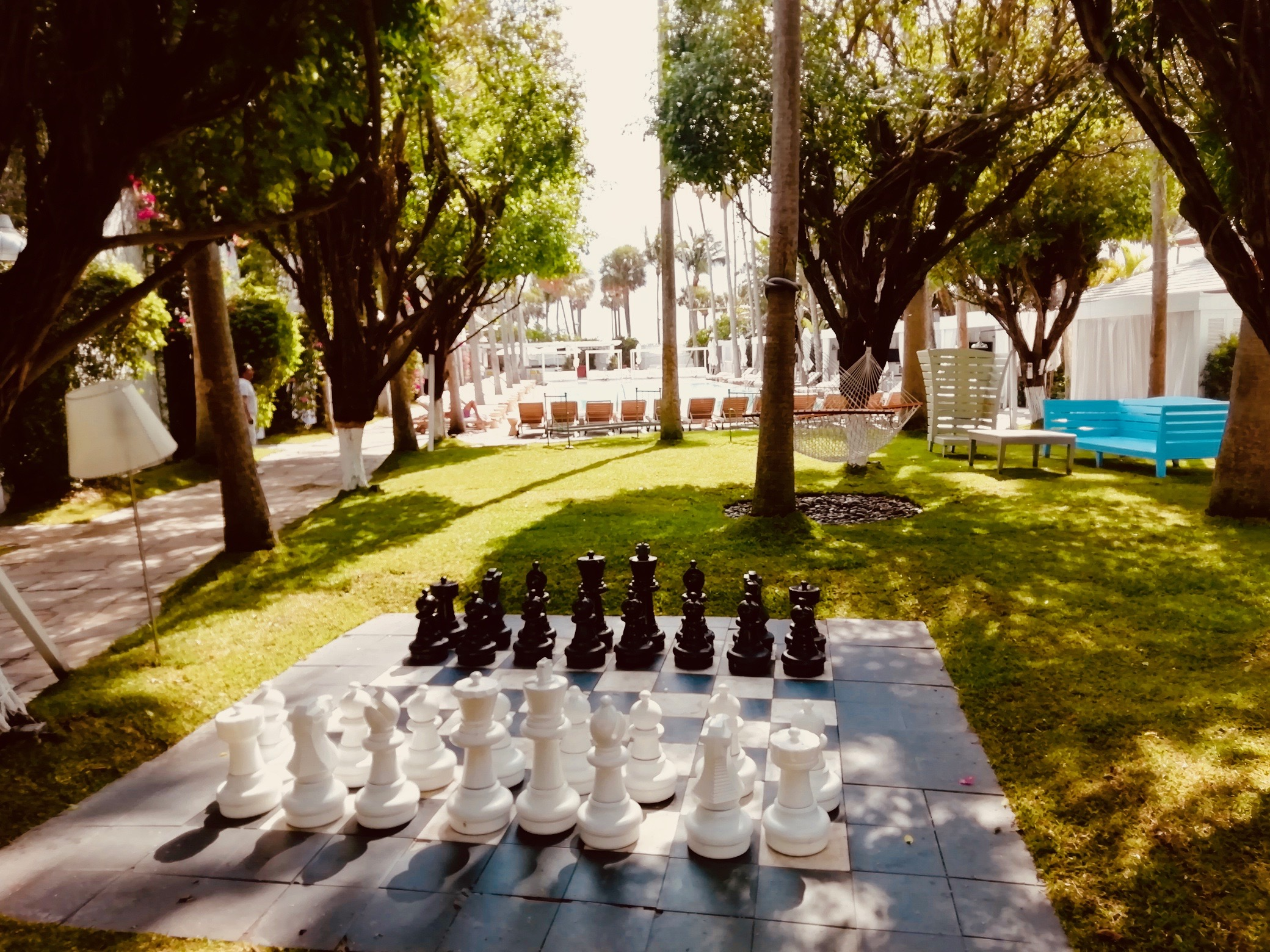 The Delano Hotel (pool and gardens), South Beach, Miami